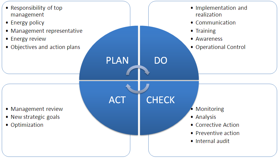 The picture describes the 4 phases of the PDCA circle based on the specification ISO 50001.